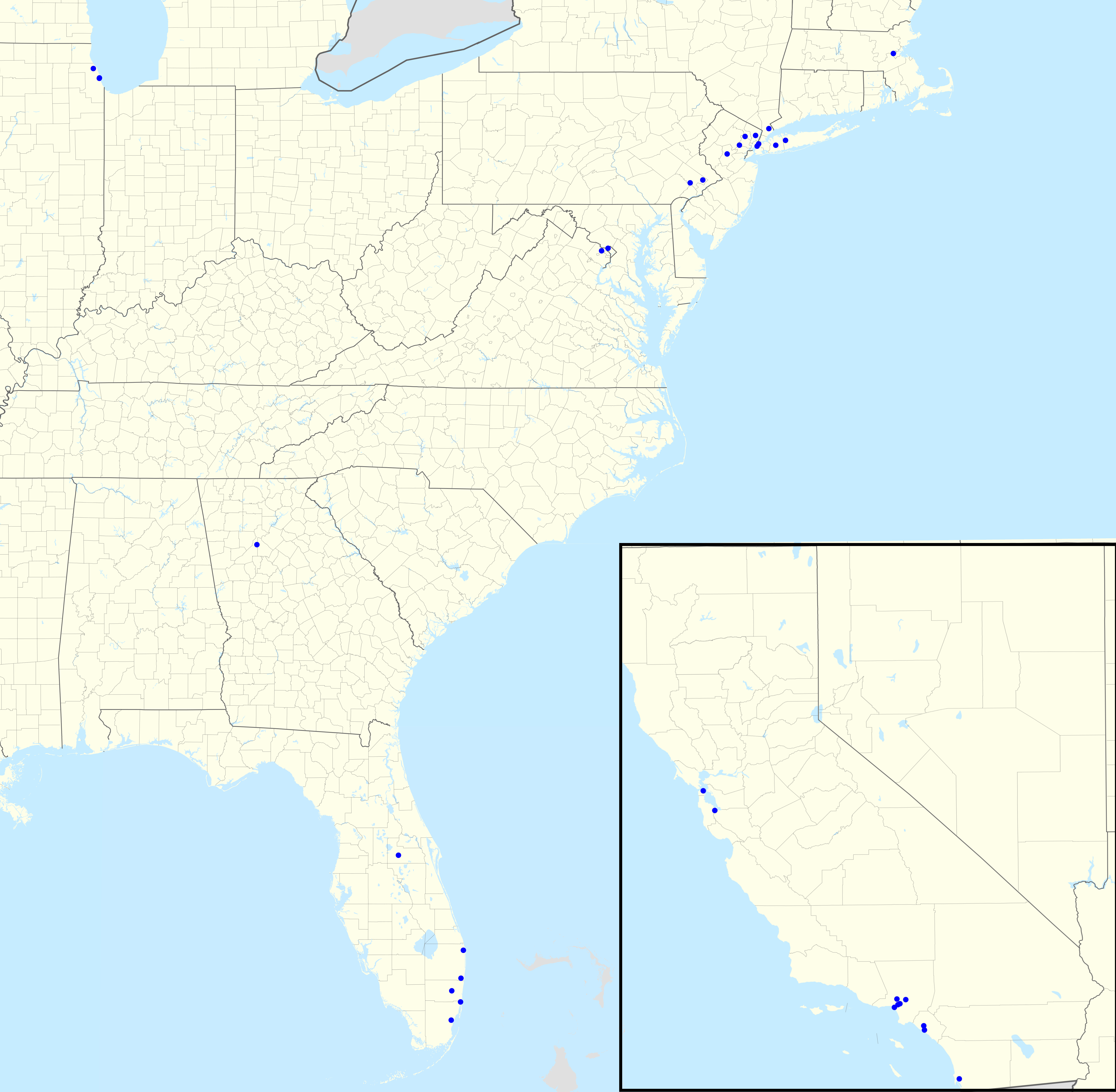 Map of Bloomingdale’s locations as of October 19, 2015; Inset is of California